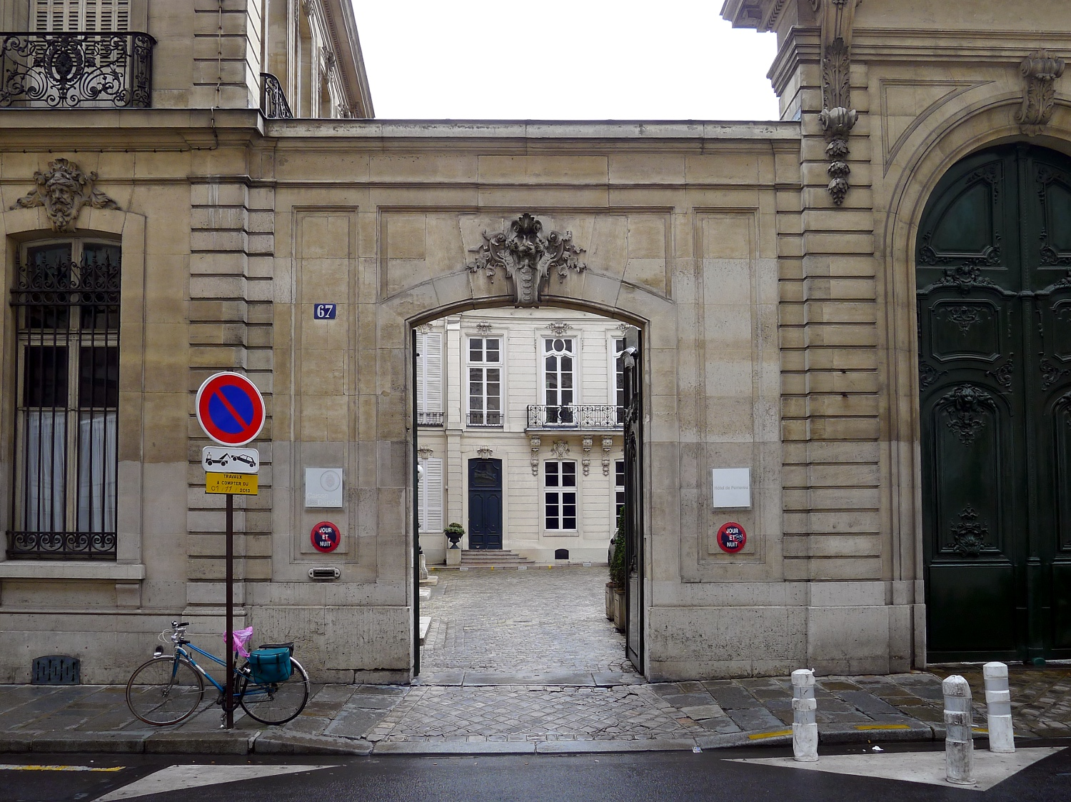 Lille street - Paris